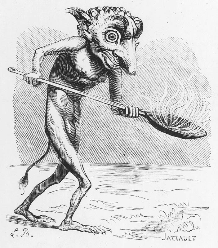 Depiction of Ukobach from Collin de Plancy's Dictionnaire Infernal, first published in 1818.